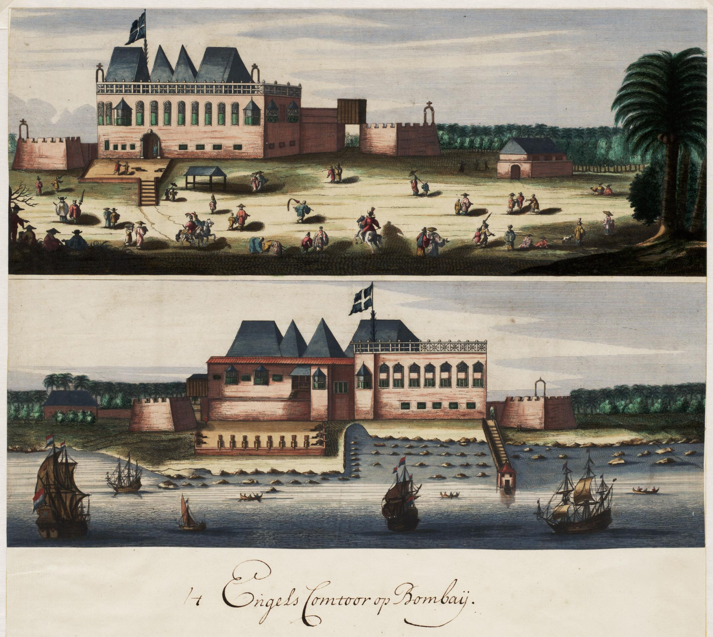 Two views of the English fort in Bombay. Title in the Leupe catalogue (NA): Gezichten op "'t Engels comtoor op Bombaij" van uit zee en van de landzijde. 't Engels Comtoor op Bombaij. Remarks: the plate has been inserted into the Vingboons Atlas, but does not form part of it. The same copper plates also occur in Baldaeus, 'Beschrijving der Oost-Indische kusten Malabar en Choromandel', Amsterdam 1672, p. 70: Koninklijke Bibliotheek, inv. nr. 189 A 6 deel I na p. 70.